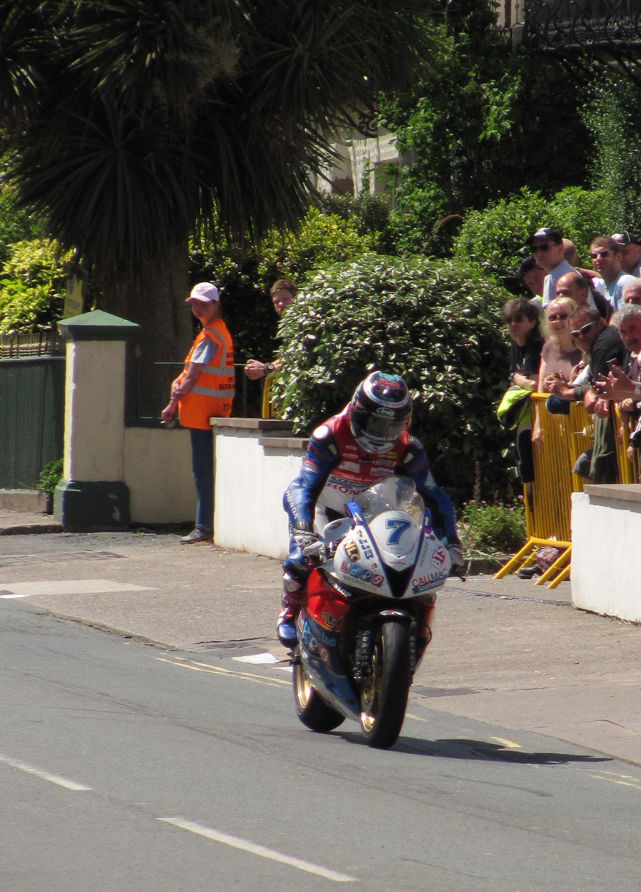 Description : Isle of Man TT Races Date : 4th June 2012 Source : / Agljones at en.wikipedia Permission See below